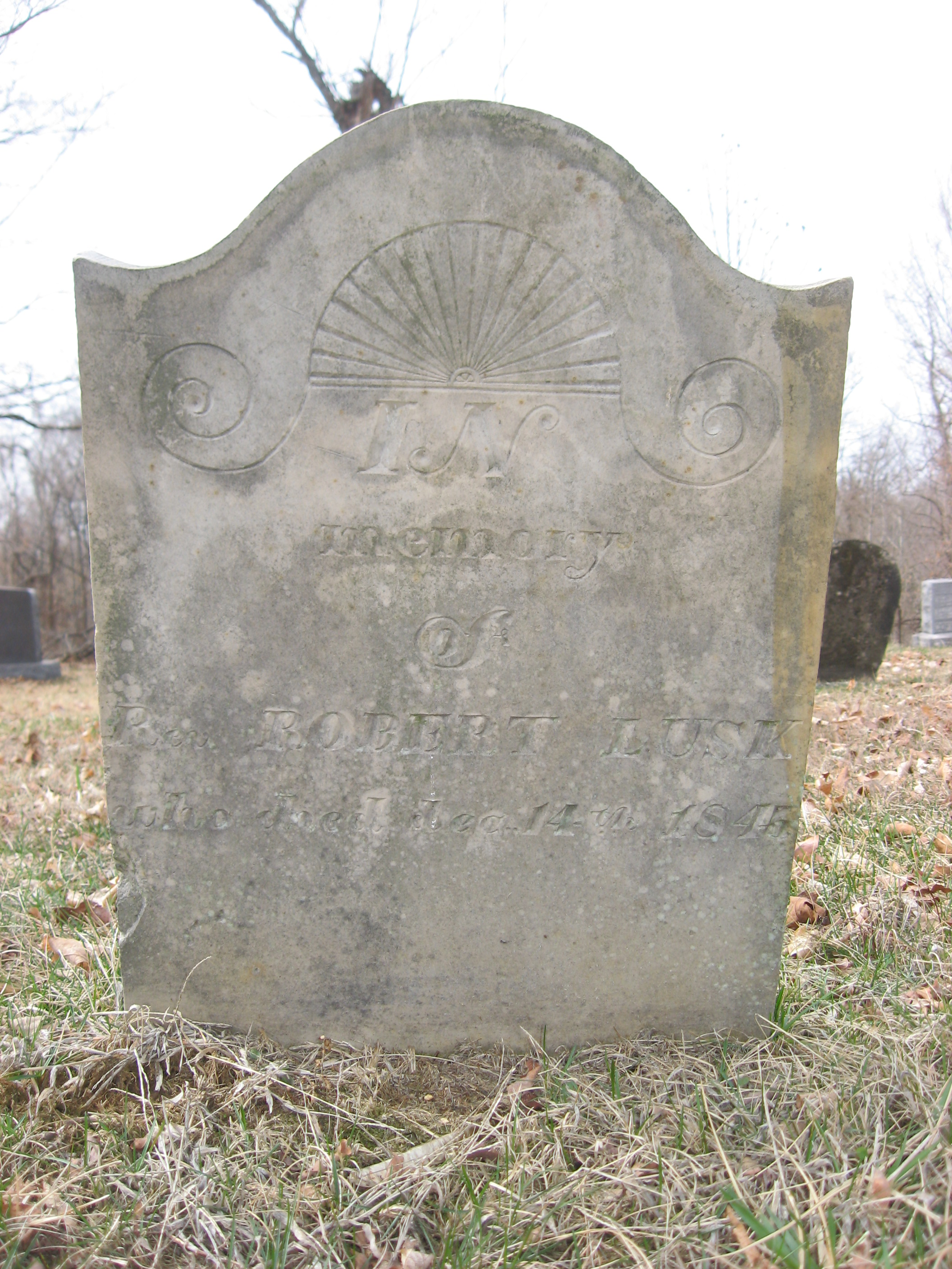 Grave of the Rev. Robert Lusk in the Walnut Ridge Reformed Presbyterian Cemetery ("Covenanter Cemetery"), located off Covenanter Lane northwest of Salem in Jefferson Township, Washington County, Indiana, United States. The longtime minister of the Walnut Ridge Reformed Presbyterian Church, Lusk lived from March 8, 1781 to December 14, 1845.